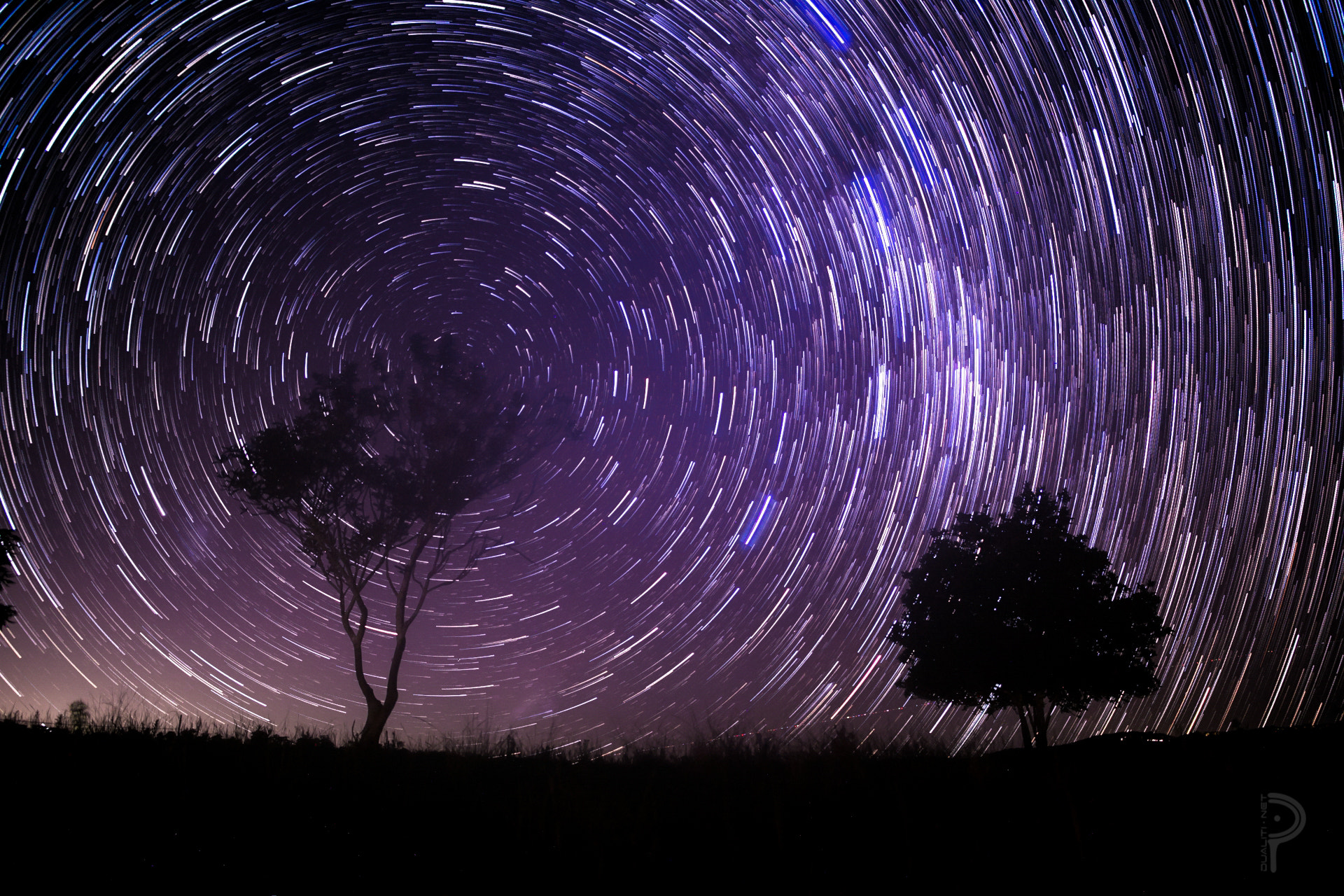 500px provided description: Finally that time of year to get back out under the stars after months of clouds and rain hiding the Milky Way. Follow my adventures:? [#trees ,#sky ,#night ,#coast ,#sunshine ,#trail ,#way ,#beautiful ,#silhouette ,#stars ,#purple ,#space ,#star ,#hill ,#world ,#australia ,#different ,#southern ,#infinity ,#milky ,#outback ,#startrails ,#hinterland]